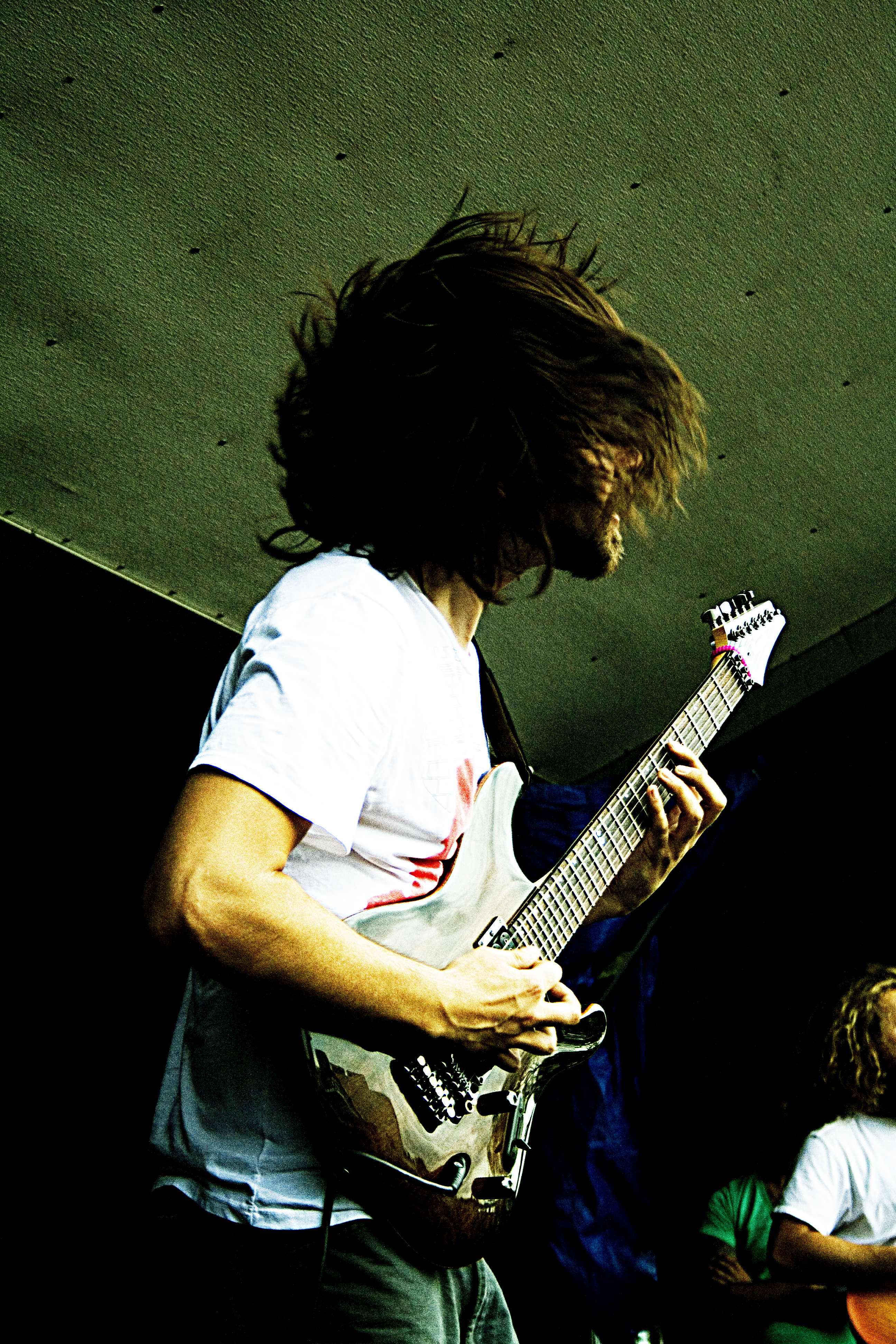 Luke Hoskin from Protest the Hero live in 2008.